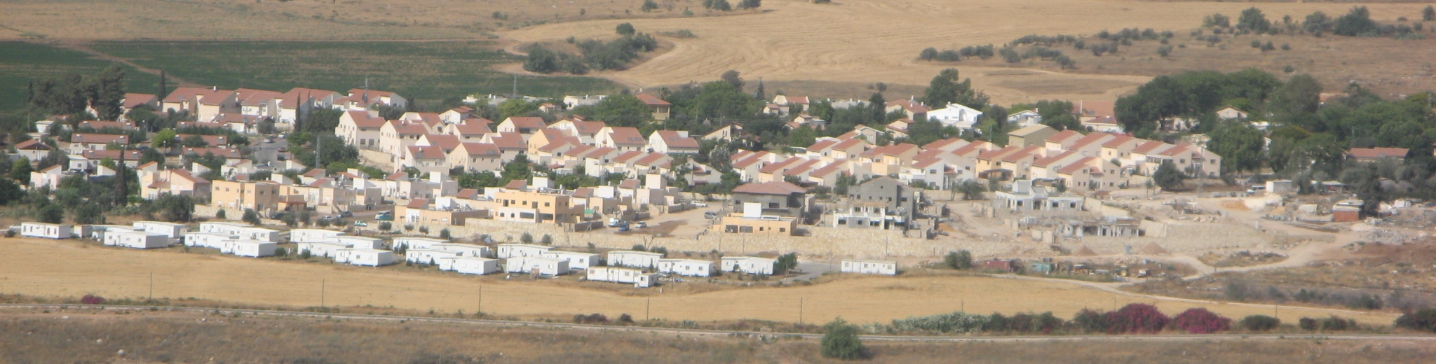 Mevo Horon from Canada park